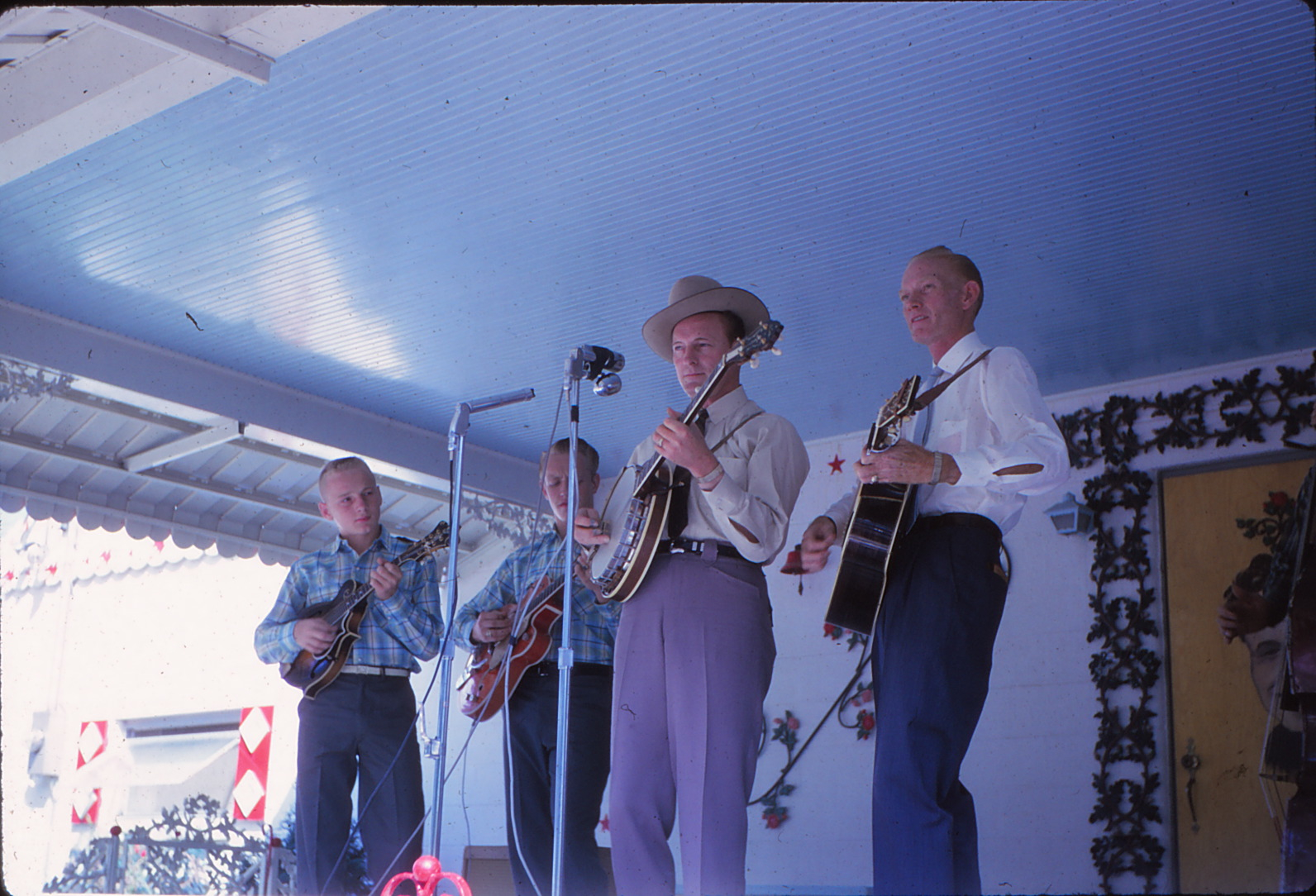 Ronnie Reno, Steve Chapman, Don Reno, and Red Smiley playing a show at Mocking Bird Hill in Anderson, IN, in 1962.